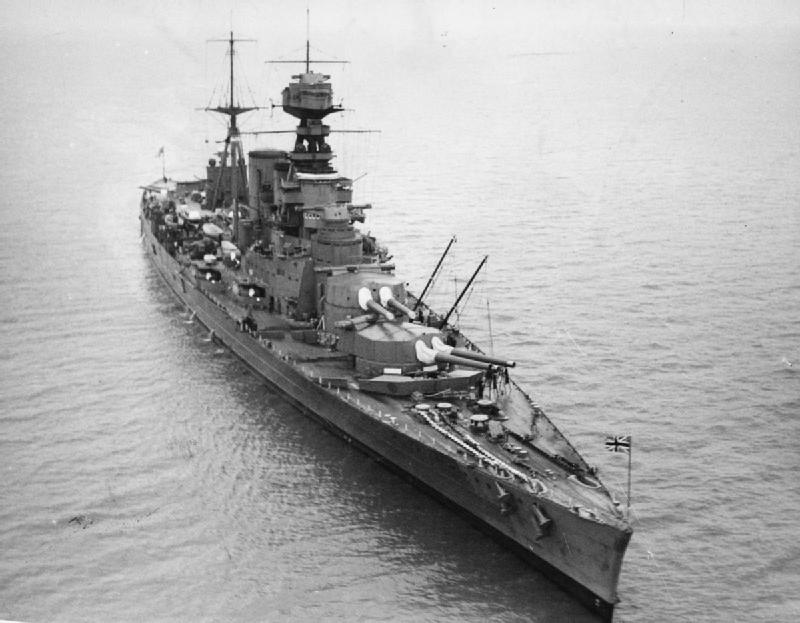 HMS Hood HMS HOOD